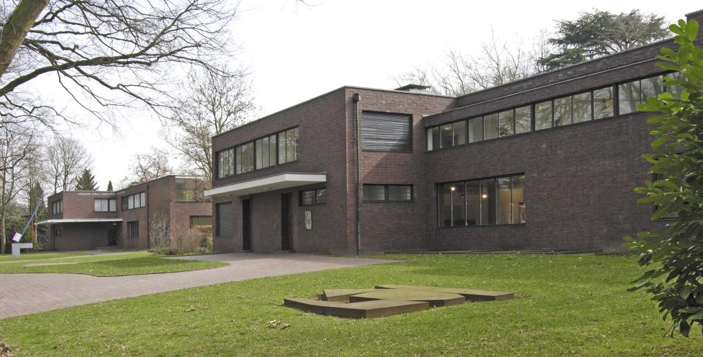 Haus Esters (on the left) und Haus Lange (on the right) by Mies van der Rohe in Krefeld (Germany)